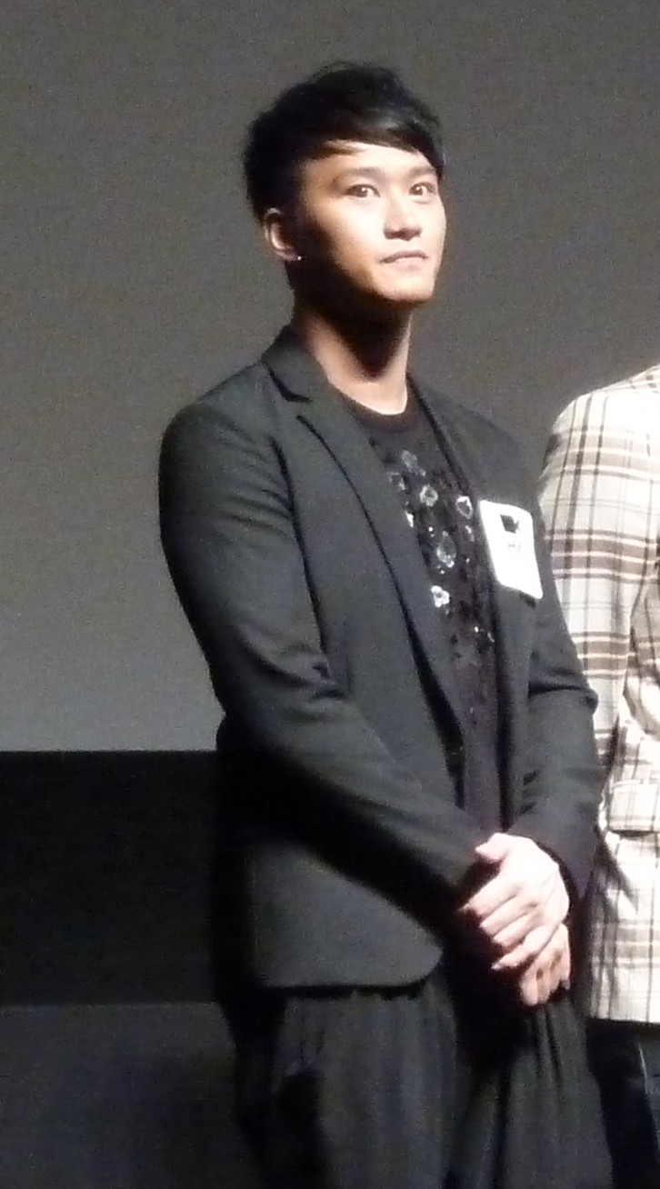 Deep Ng at the 2010 Hong Kong International Film Festival